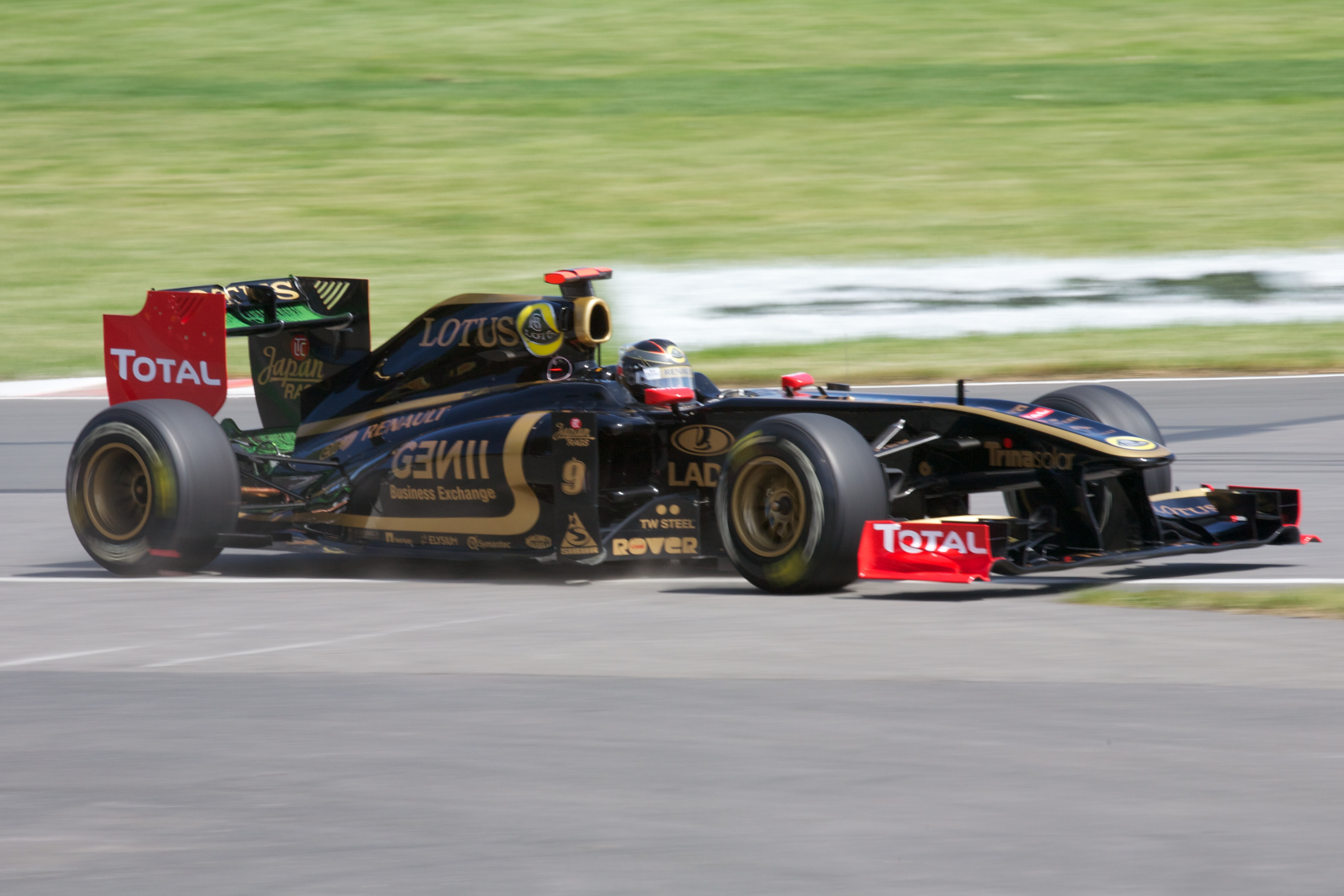 2011 Canadian Grand Prix